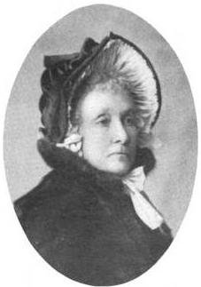 Caroline M. Nichols Churchill, circa 1909